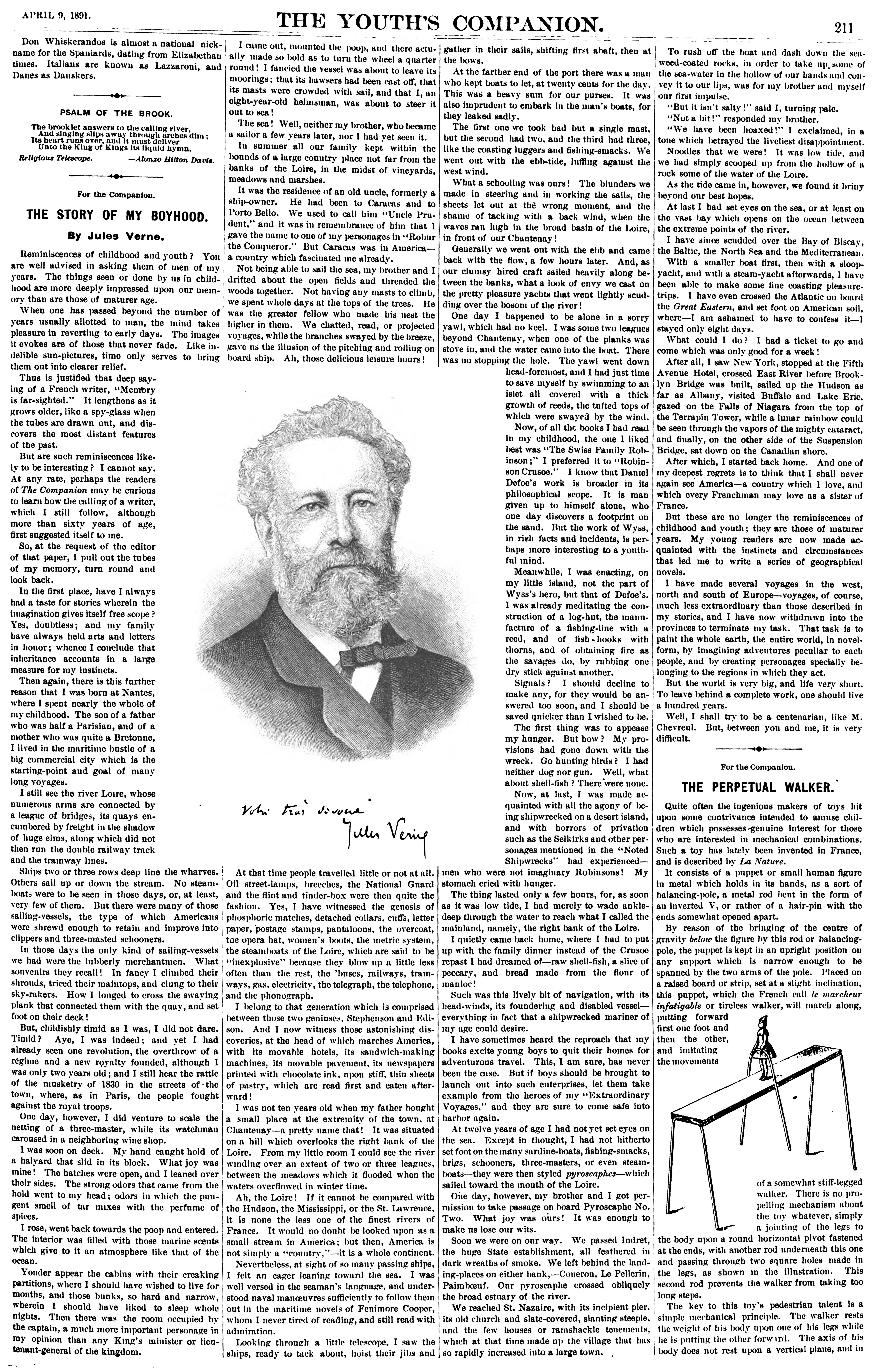 "The Story of My Boyhood", an anonymous English translation of Jules Verne's essay "Souvenirs d’enfance et de jeunesse," in The Youth's Companion 64:15 (April 9, 1891).